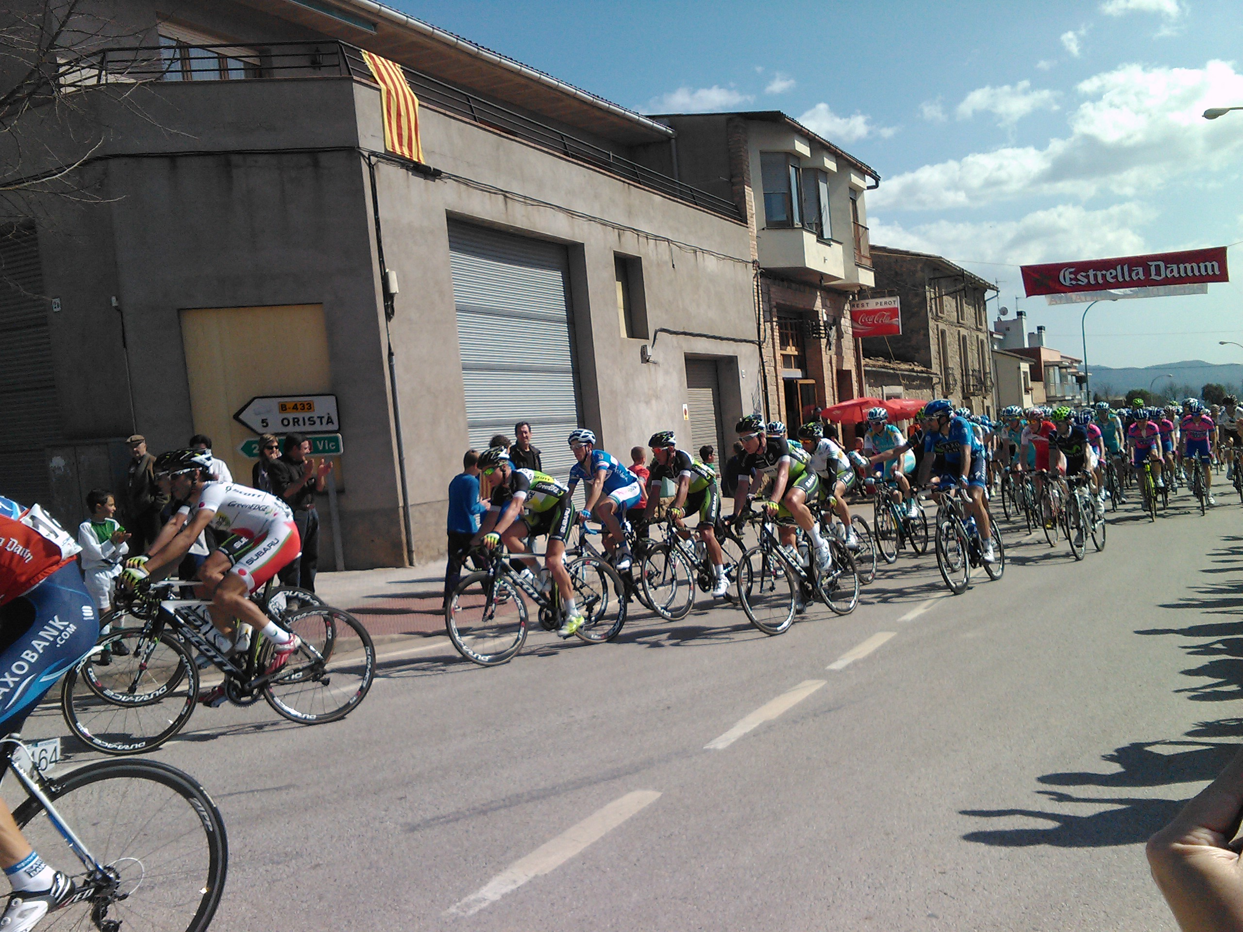 Bunch of the 2012 Volta Ciclista a Catalunya (Tour of Catalonia) in Sant Feliu Sasserra (Bages) (mountain pass: category 3), of the 6th stage.